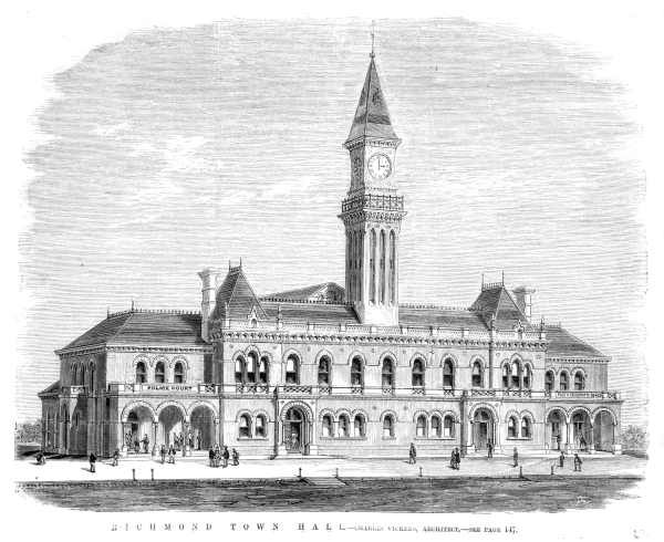 Lithograph of the original design for Richmond Town Hall from 1870